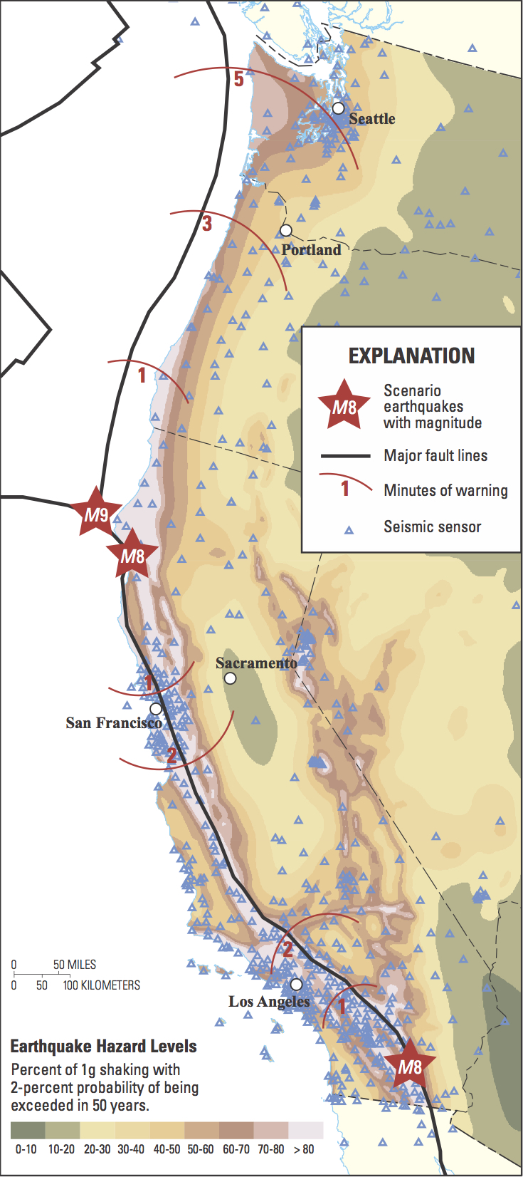 Map of the United States West Coast showing the amount of advance warning time that might be available from a system like ShakeAlert for several plausible future earthquake scenarios. Those scenarios include magnitude 8 (M8) quakes on the San Andreas Fault with epicenters in northern and southern California and an M9 quake on the Cascadia subduction zone with an epicenter offshore of northernmost California.